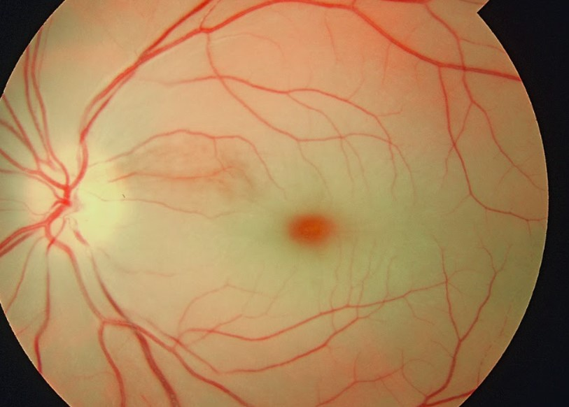 Image showing cherry red spot and retinal swelling.